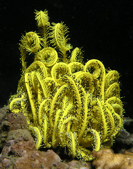 Yellow specimen of the Variable Bushy Feather Star (Comanthina schlegeli) from East Timor.